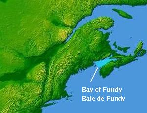 Bay of Fundy location imported from English Wikipedia